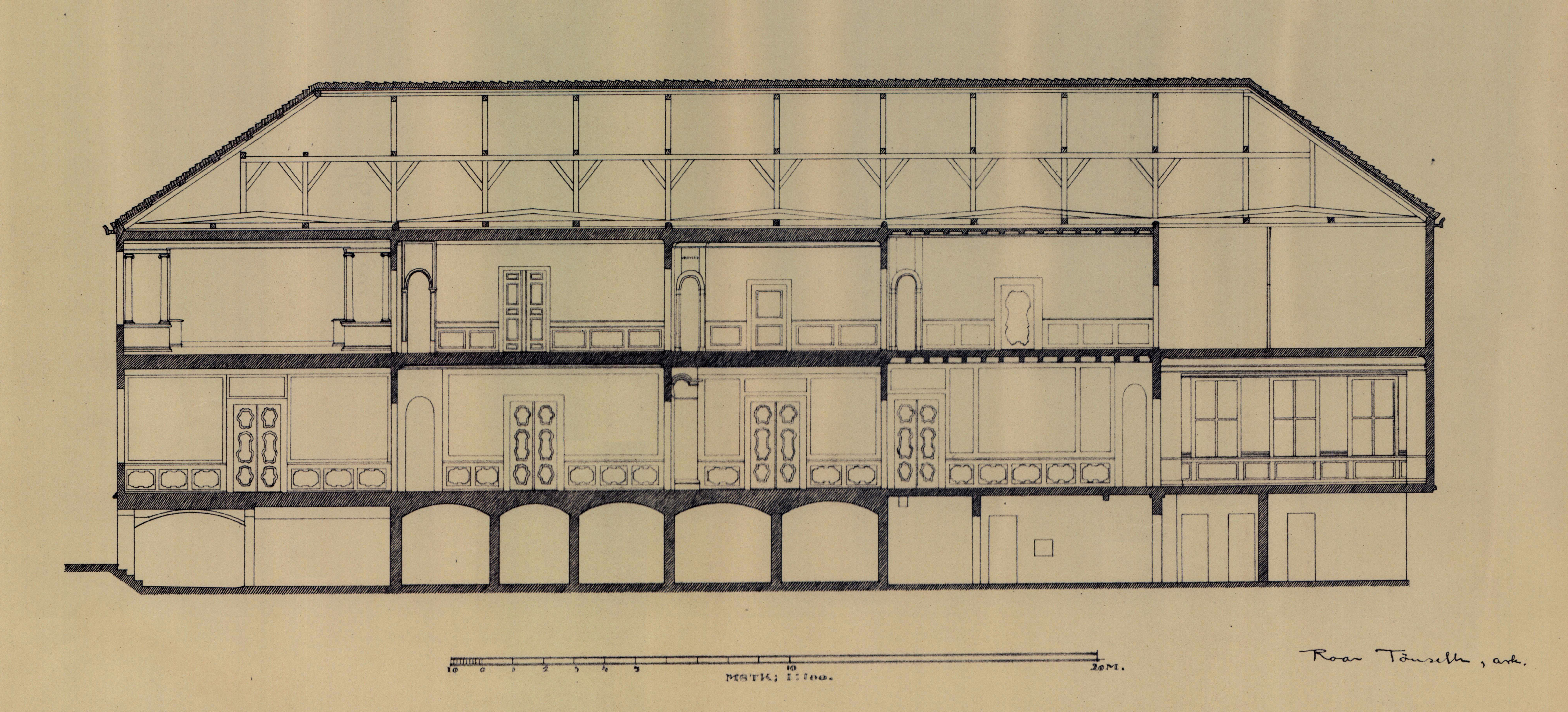 East-West section through the main building of Harmonien, Trondheim, erected around 1769–1773